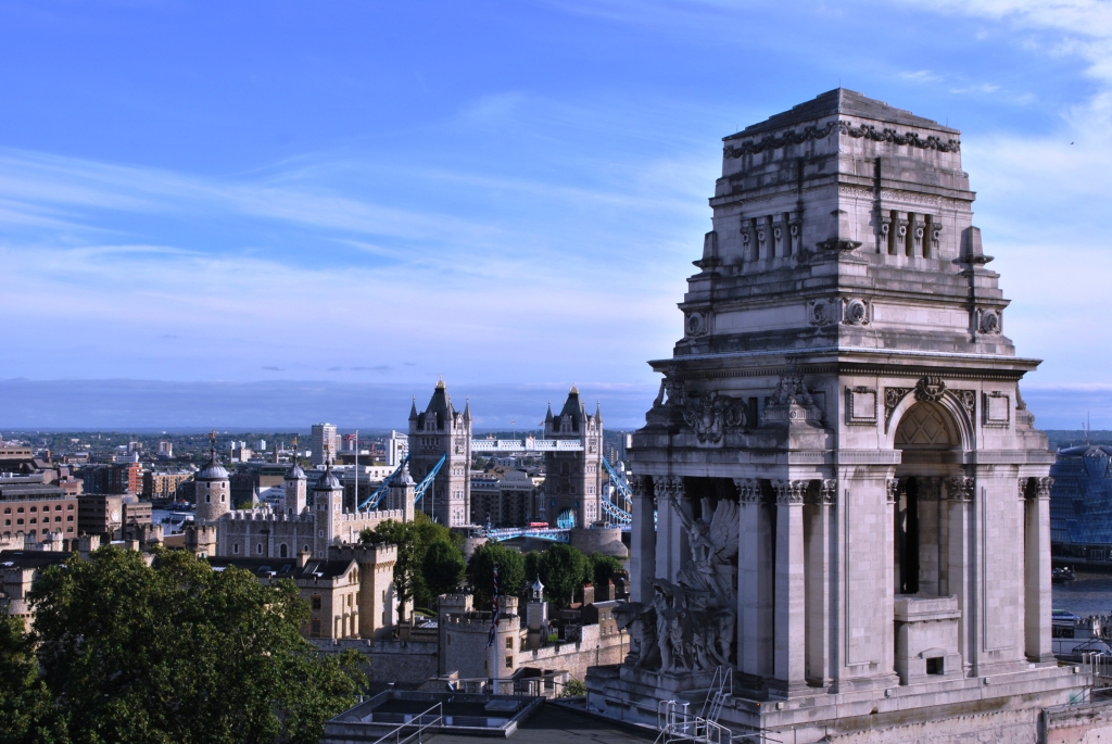 Trinity House